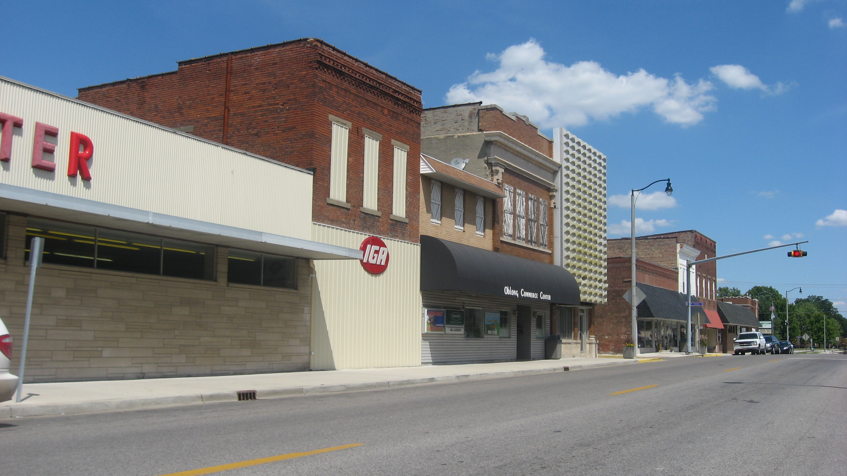 Buildings on the northern side of the 100 block of W. Main Street (Illinois Route 33) in Oblong, Illinois, United States.